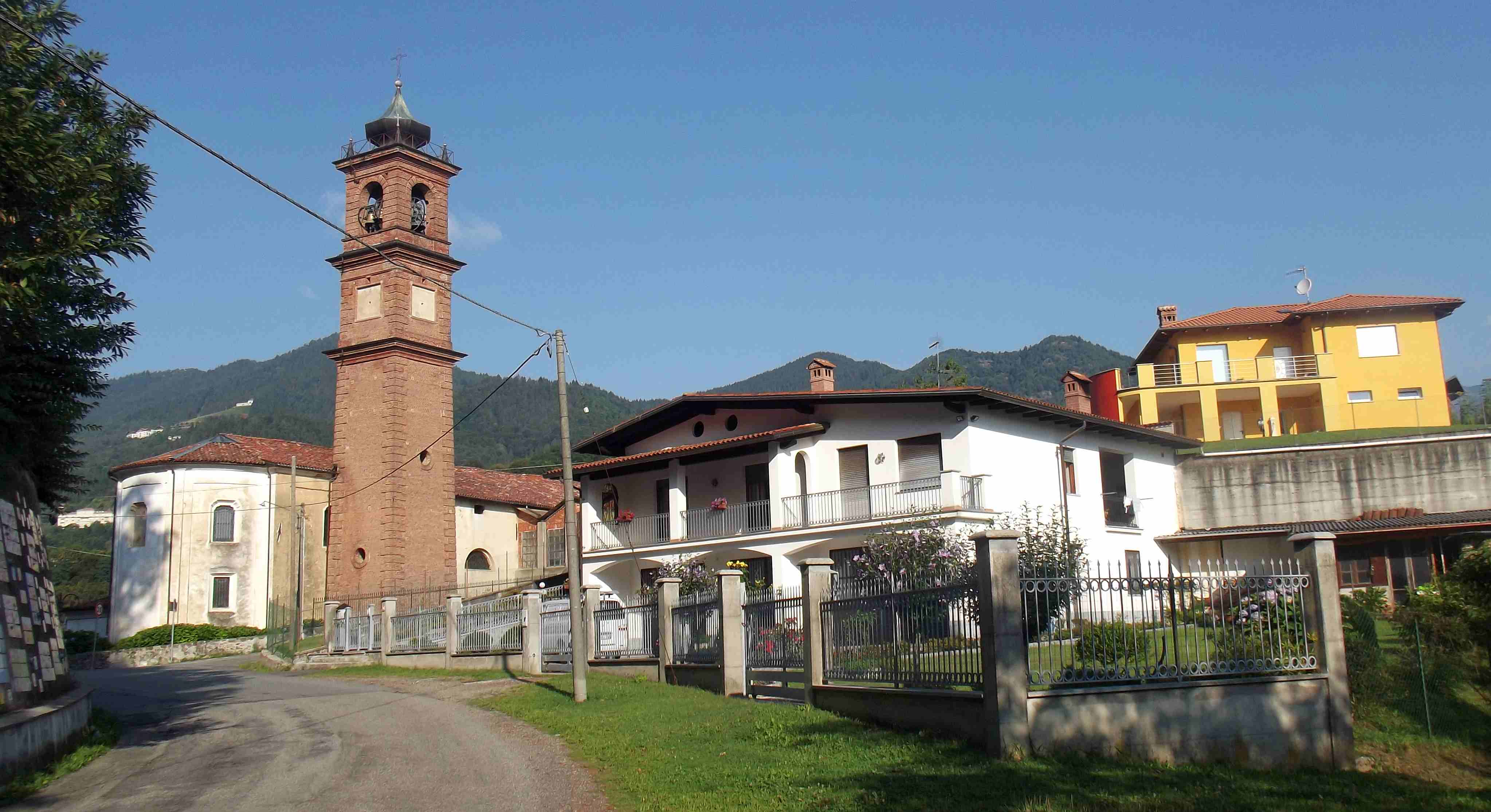 Portula (BI, Italy): panorama